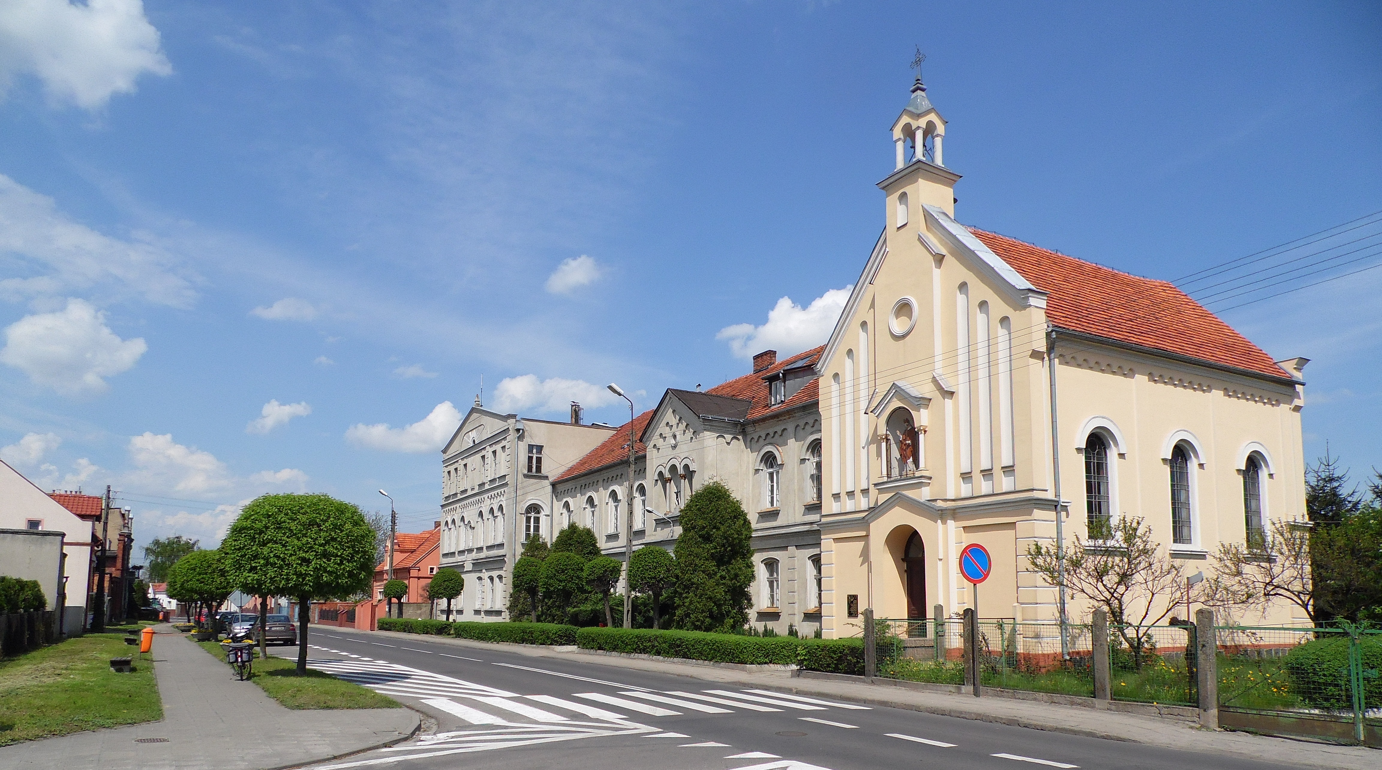 Team of the Sisters of Mercy Hospital: Hospital of the chapel in 1888, the house of sisters from 1896 Poniec / area. gostyński / province. Greater Poland / Poland